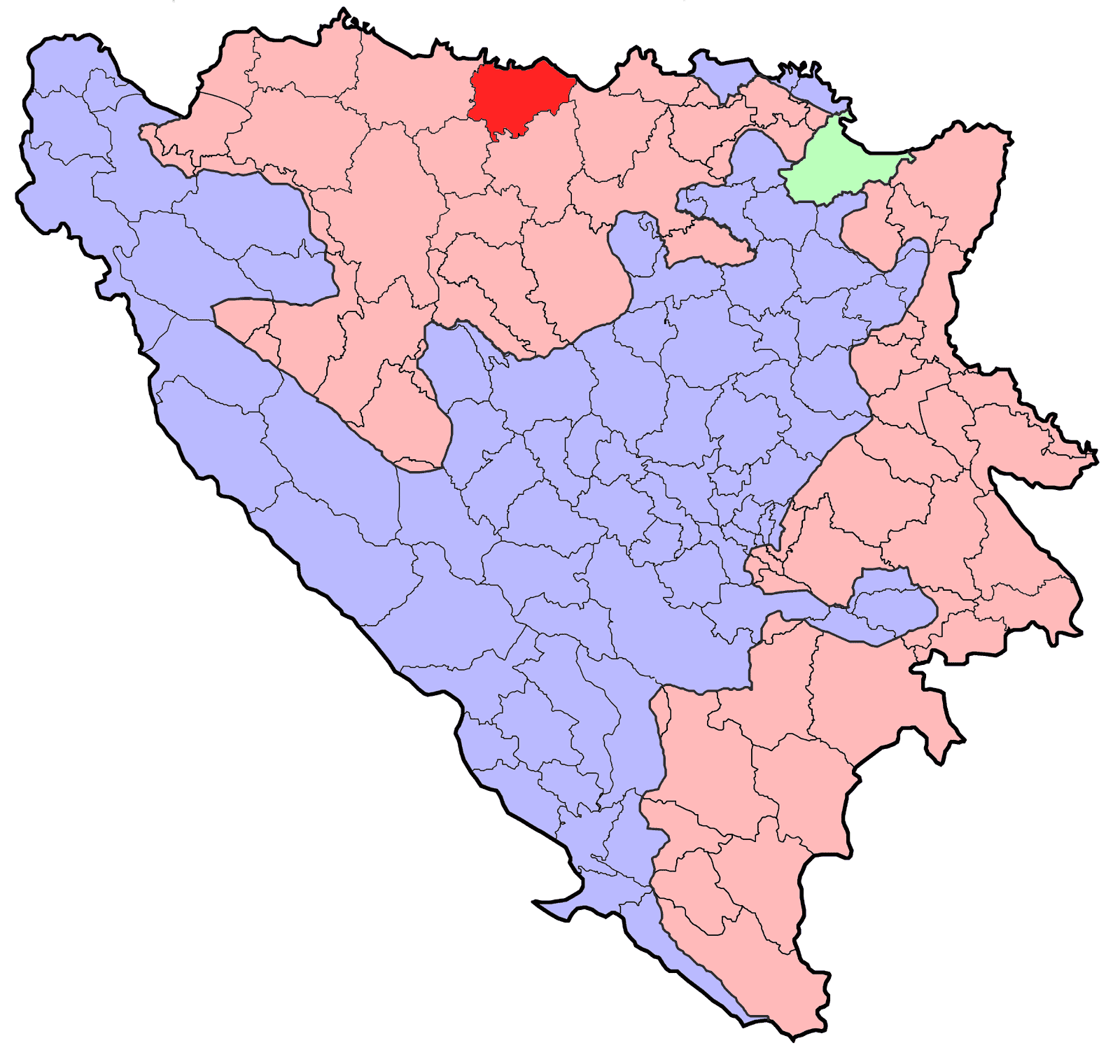 Location of Srbac municipality in Bosnia and Herzegovina.